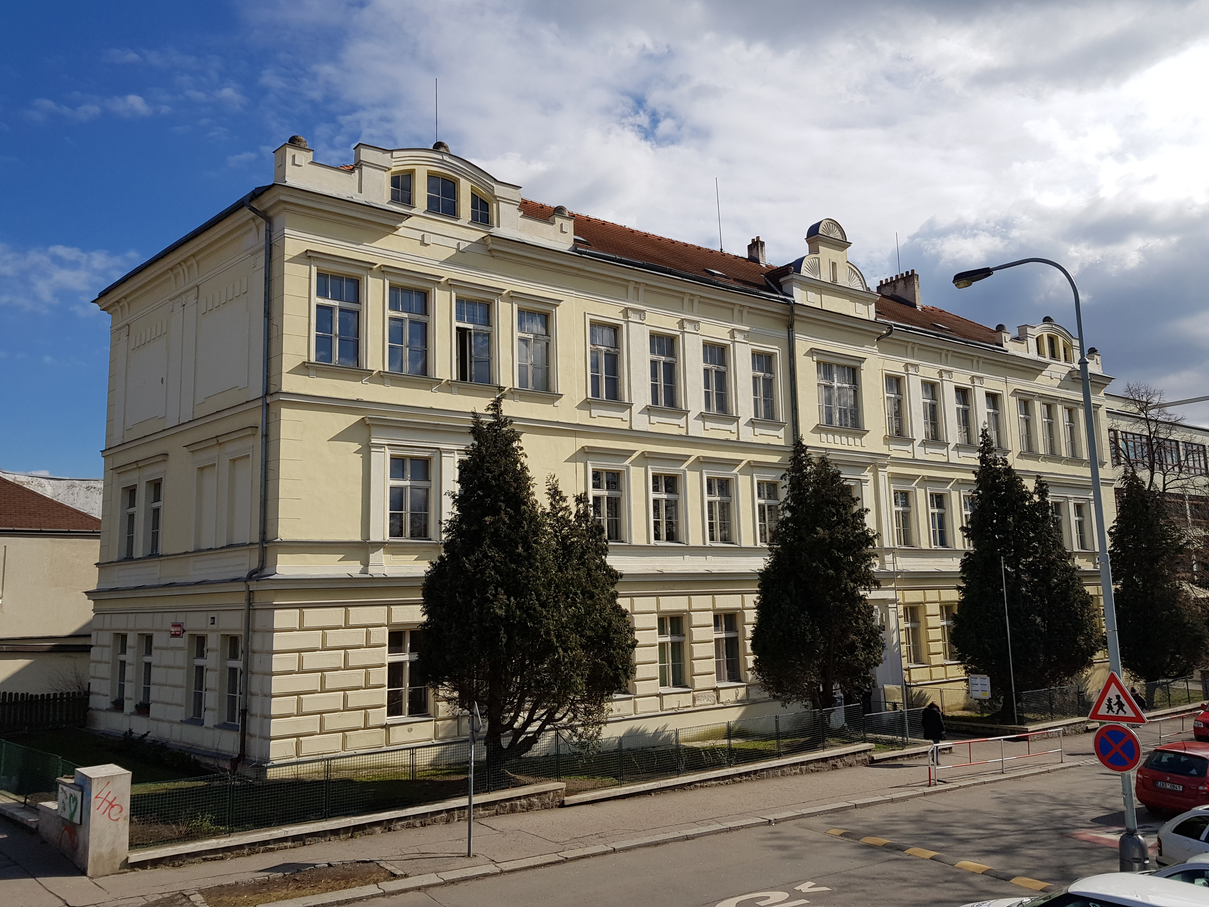 School No. 78 in Prague-Hloubětín